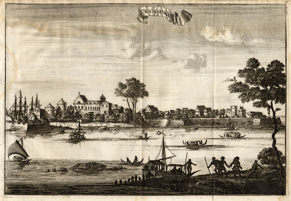 Cranganore with Dutch East India Company ships in the harbor (1708)